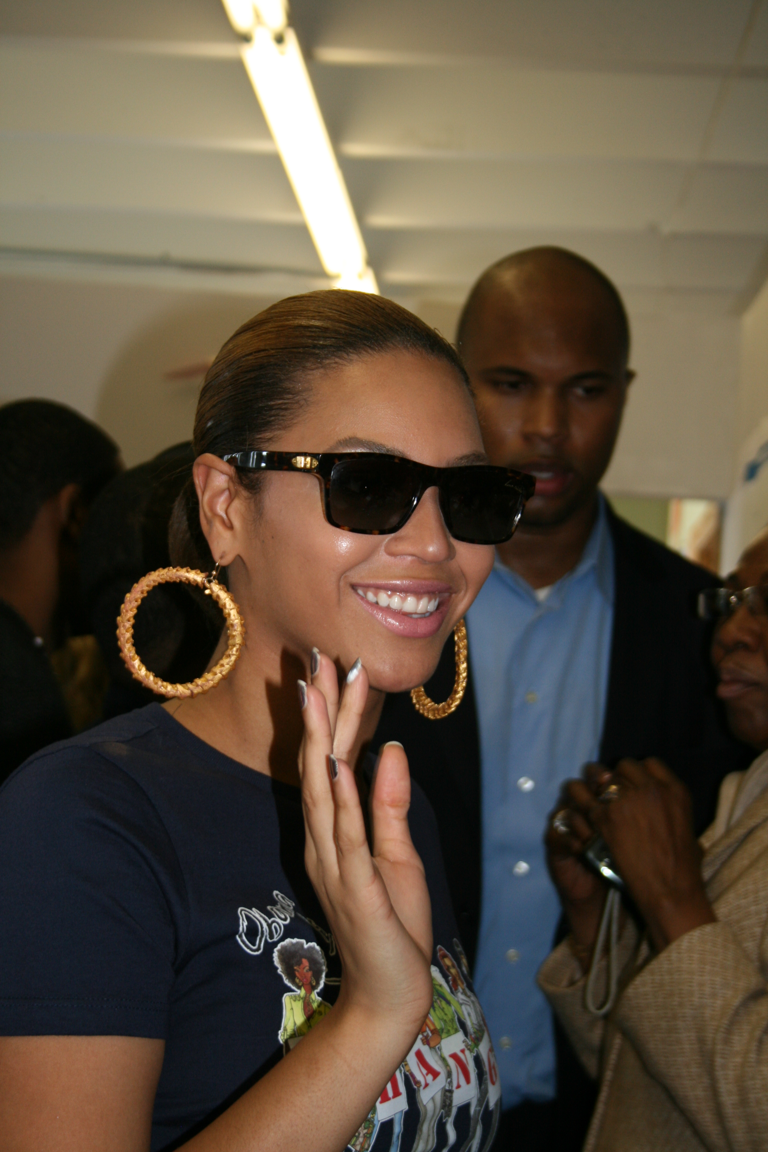 The American singer Beyoncé.